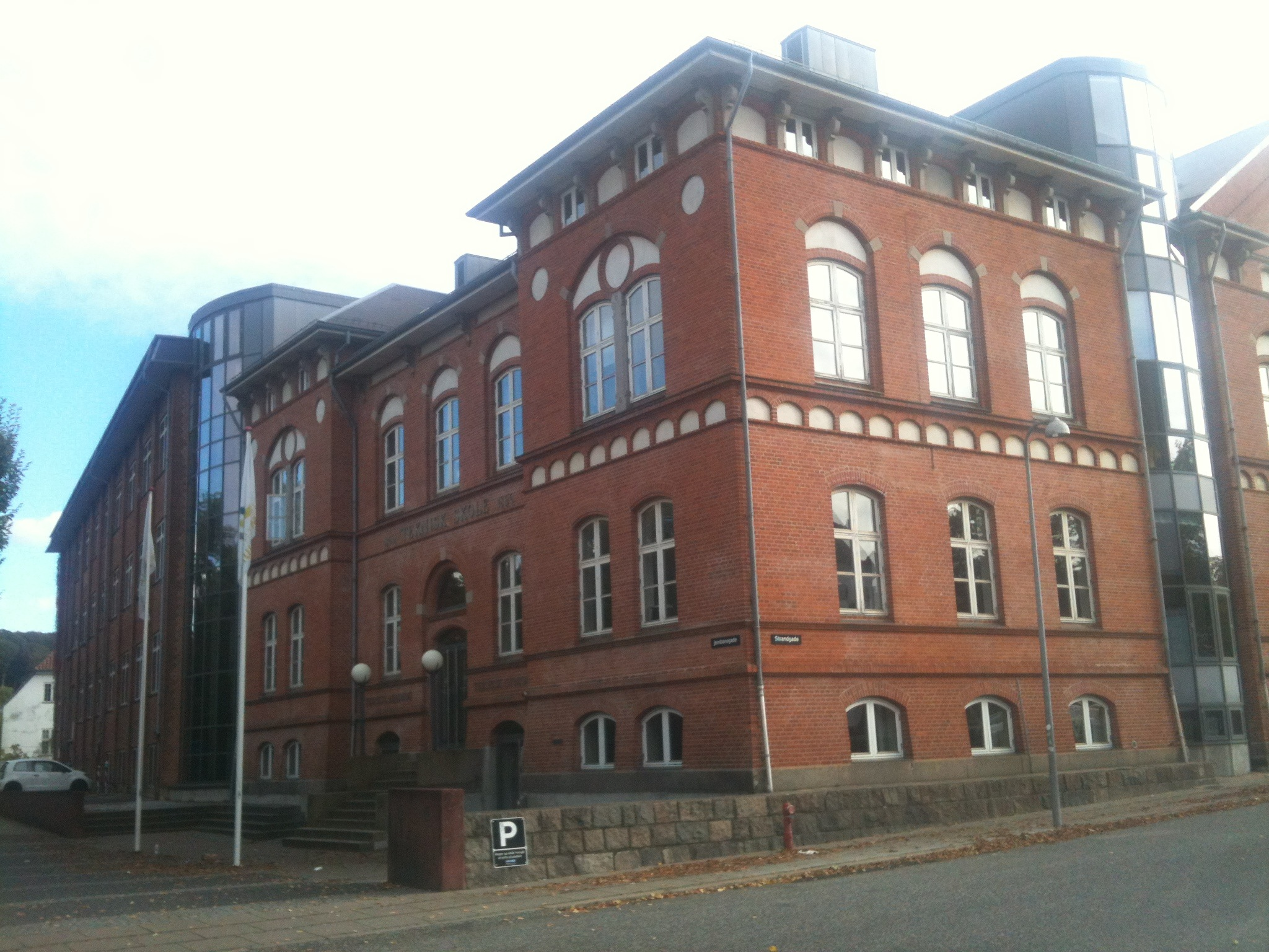 Vejle Tekniske Gymnasium (Technical College) - Vejle - DenmarkDansk: Vejle Tekniske Gymnasium - Vejle - Danmark